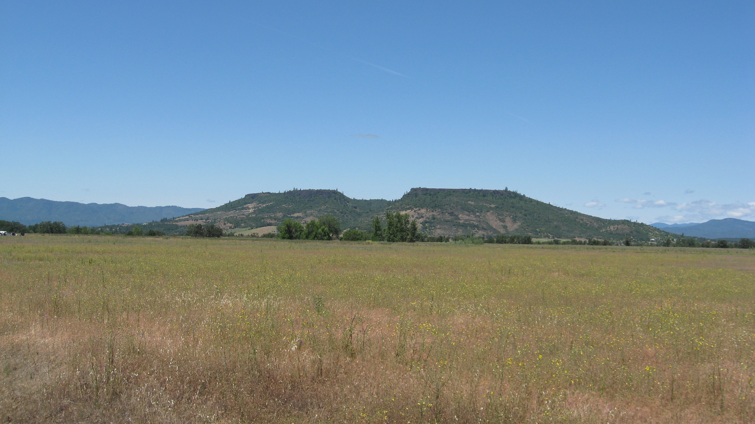 View from the edge of the Denman Wildlife Area in White City, Jackson County, Oregon. Looking directly in the bowl of Upper Table Rock. "I took this picture myself".